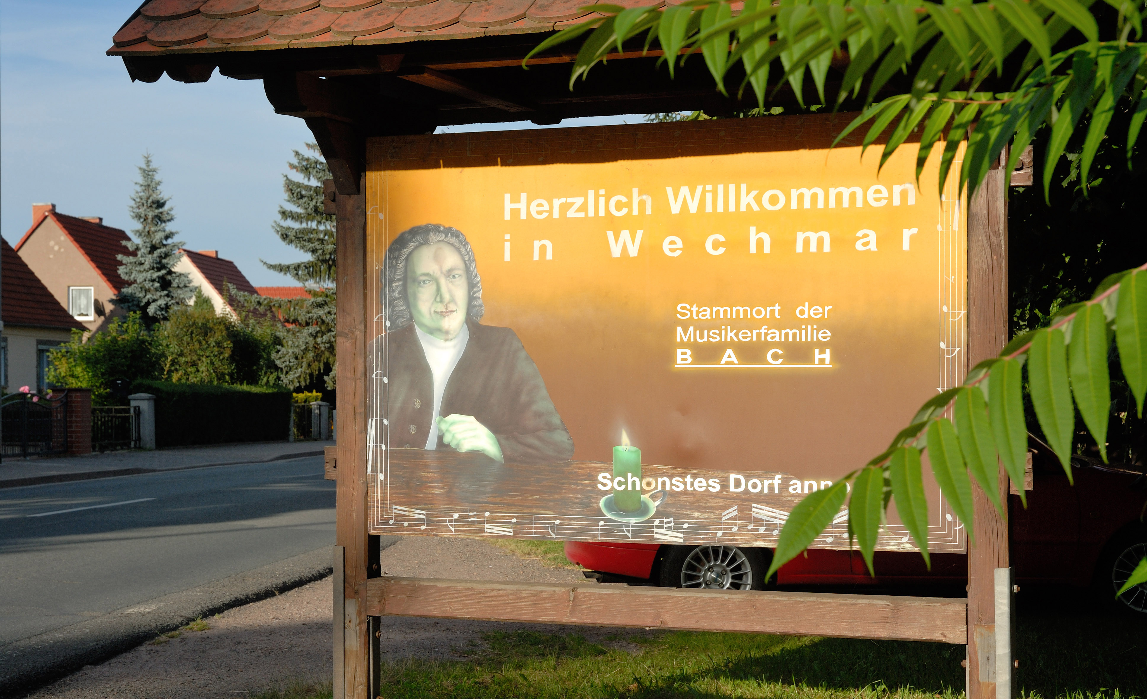 Bach family street poster of Wechmar